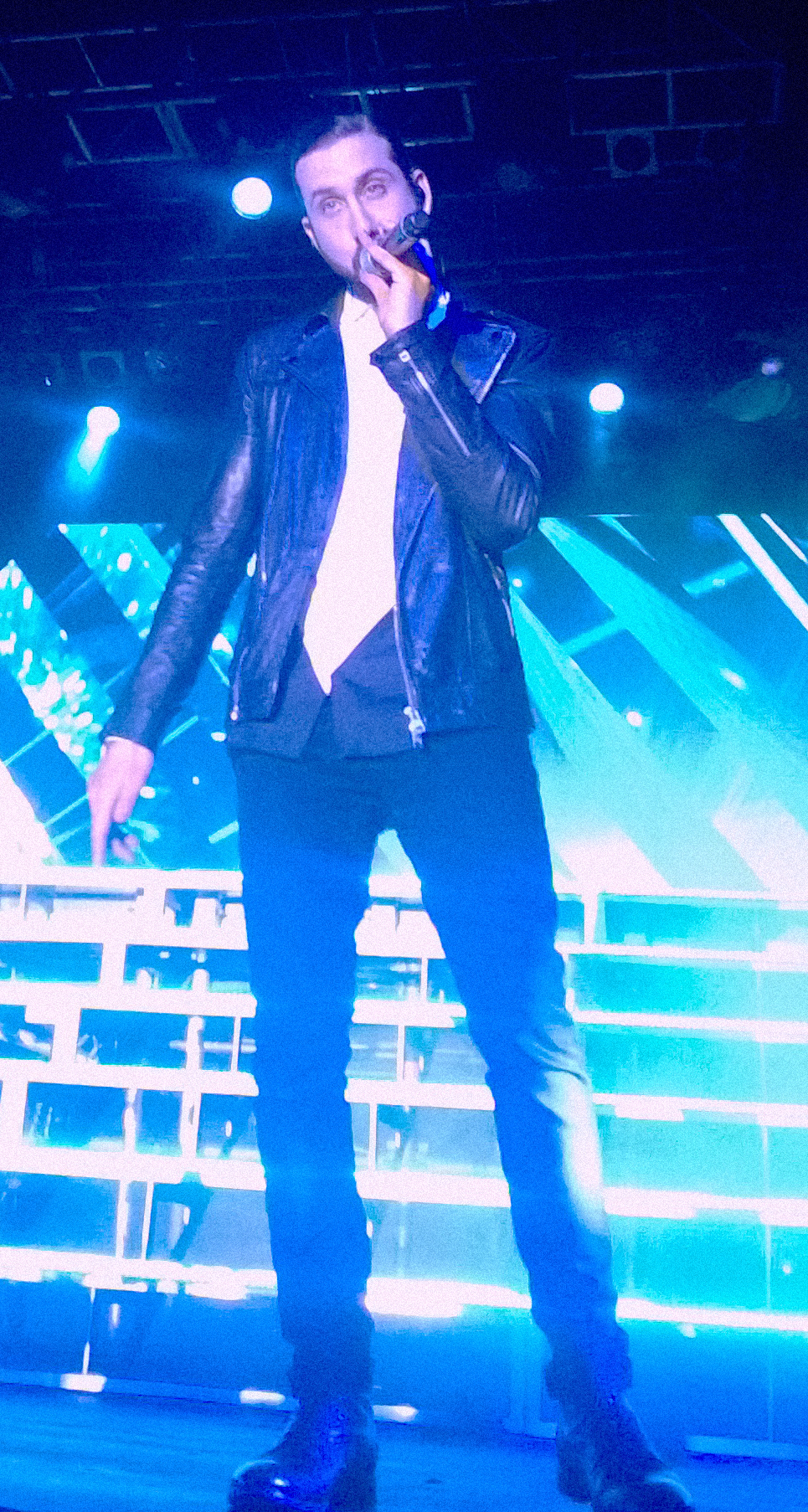 Avi Kaplan performing with Pentatonix in Barcelona (2015)